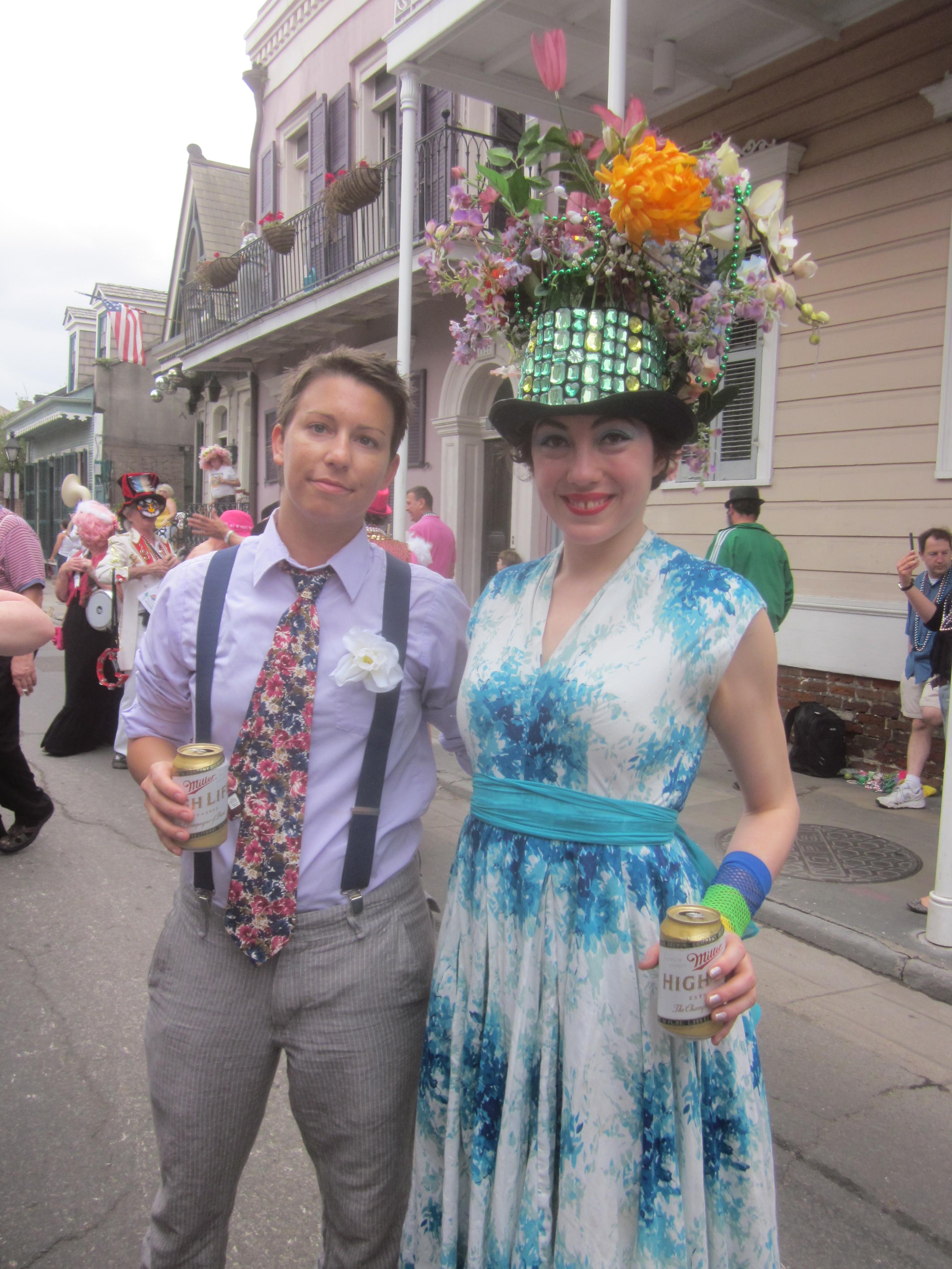 Easter in New Orleans.The Gay Easter Parade in the French Quarter.